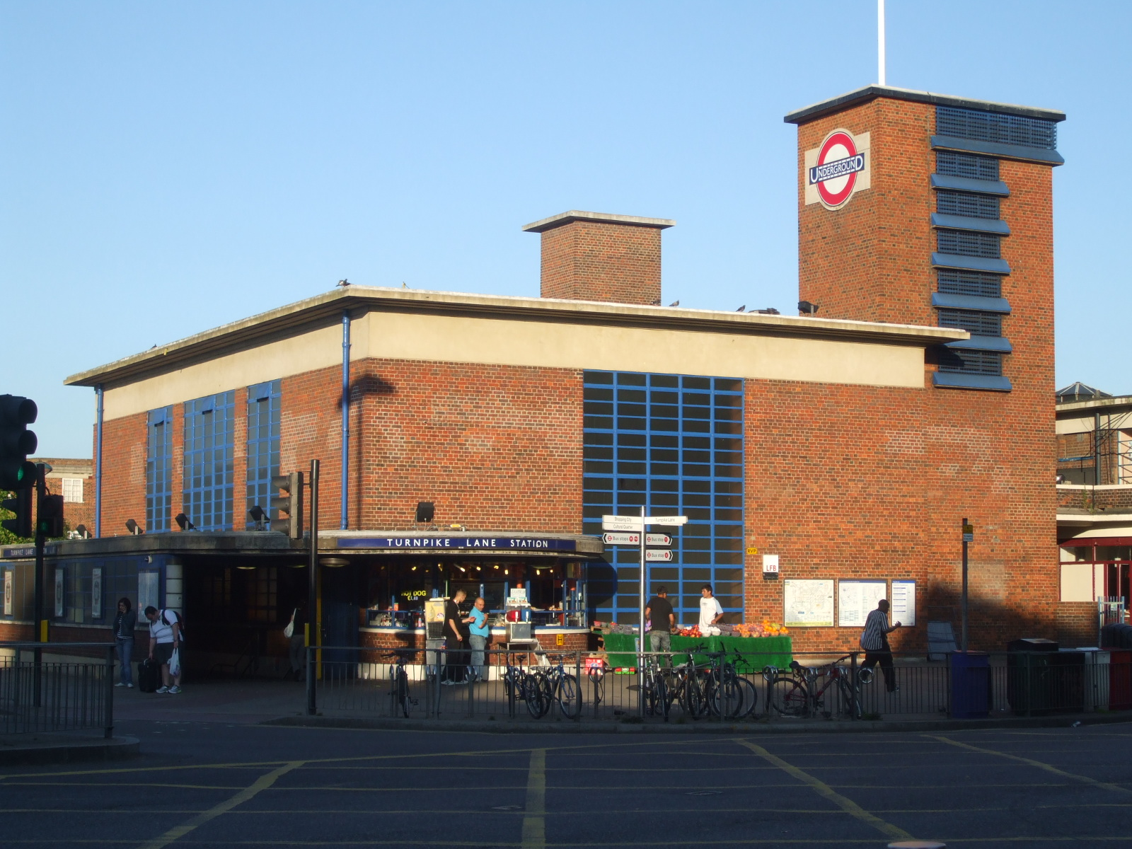 Turnpike Lane tube station main building